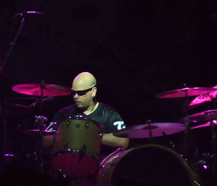 Ian Haugland, drummer of the Swedish rock band Europe, performing in Festivalna hall, Sofia during their Bag of Bones tour 2012.